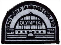 w:1st World Scout Jamboree